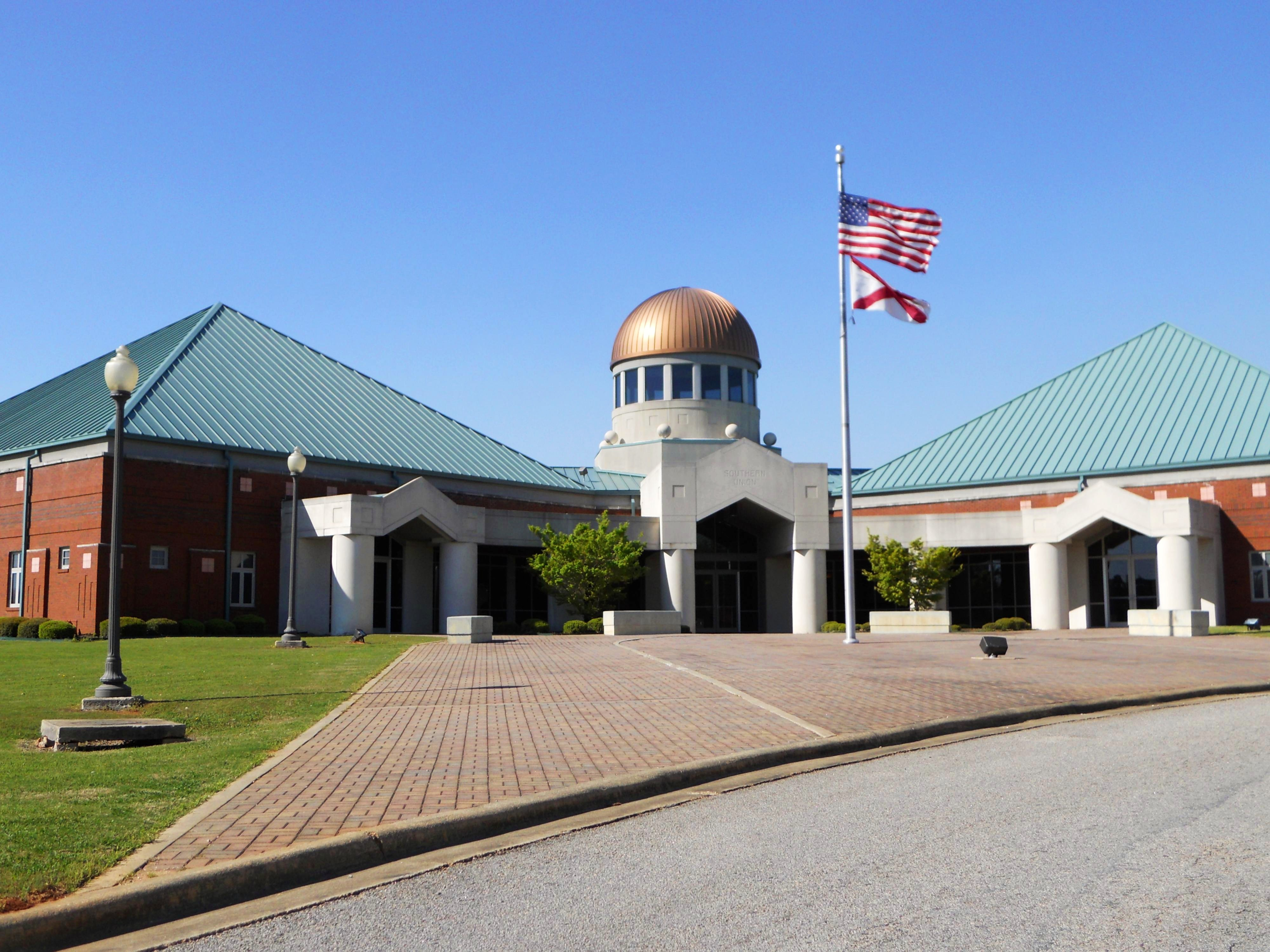 This is a photograph of the Opelika Campus of Southern Union State Community College.